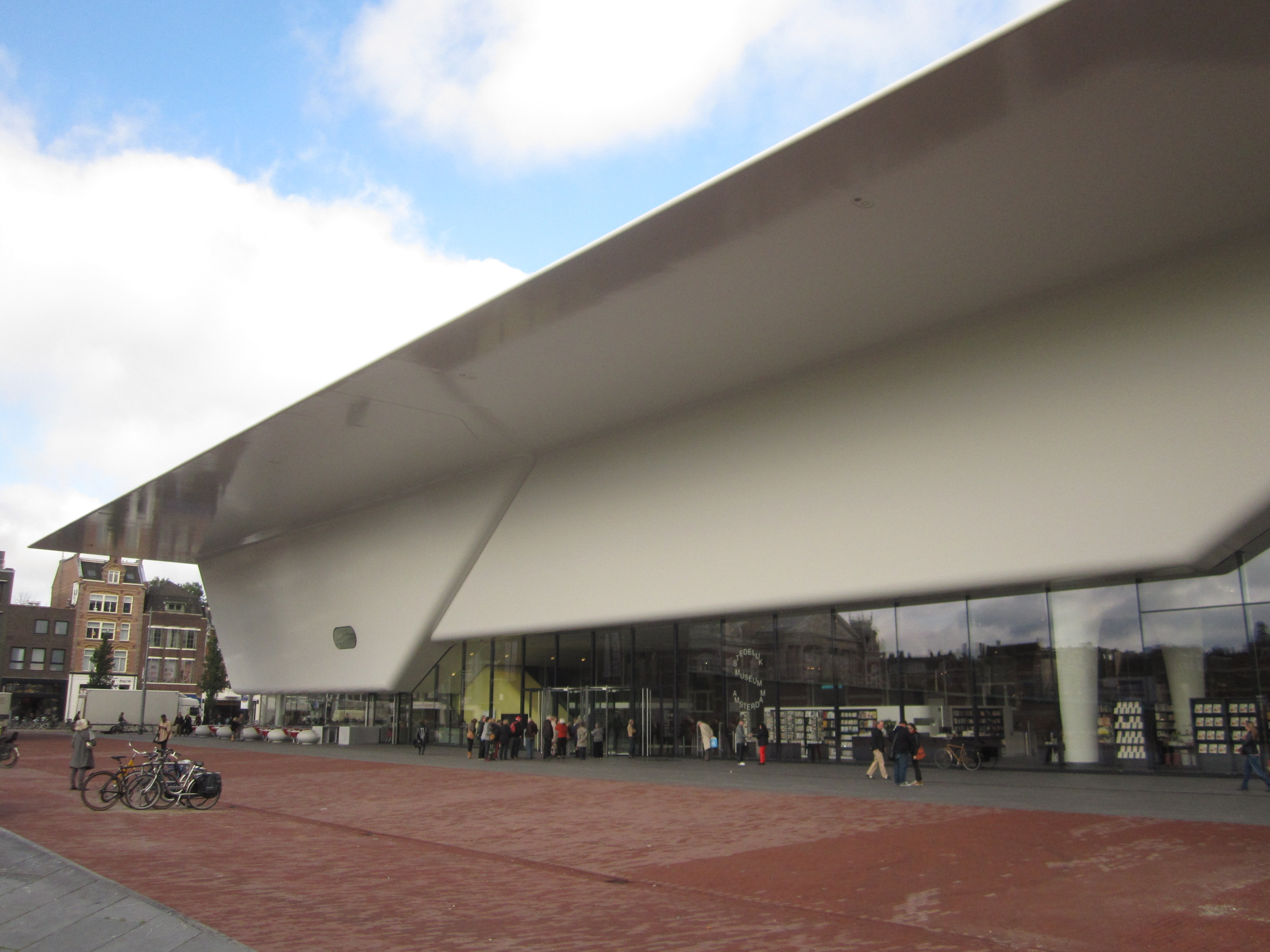 The new wing of the Stedelijk Museum Amsterdam, two days after the reopening in 2012.